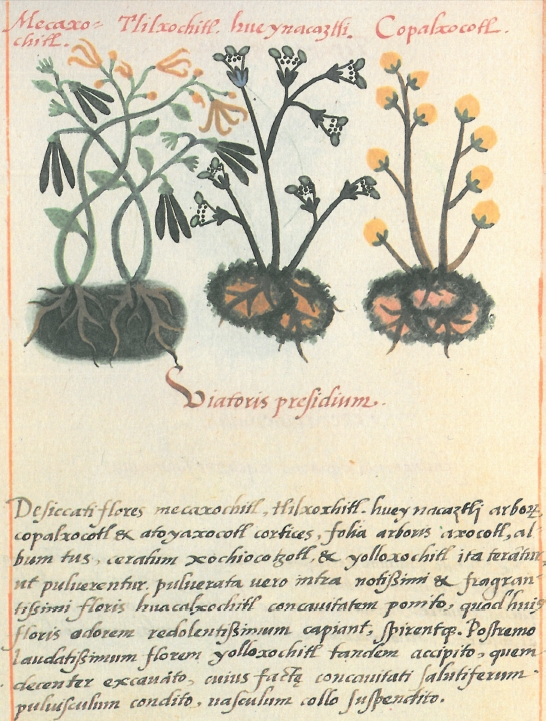 Libellus de medicinalibus Indorum herbis f. 56v